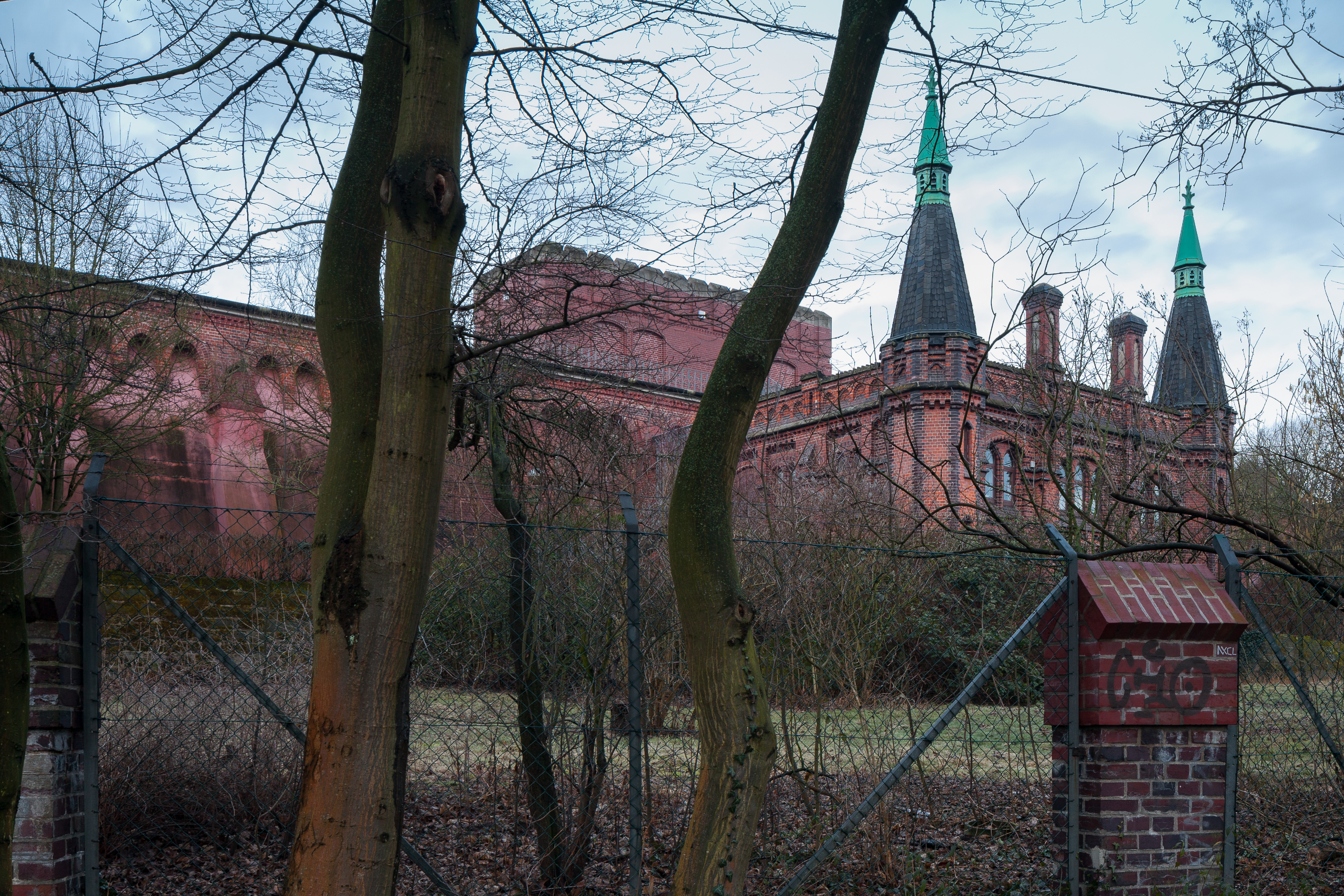 Water tank located at Linden hill in Linden-Sued district of Hannover, Germany. The image shows the east side facing towards the city. Its view is obstructed by trees.